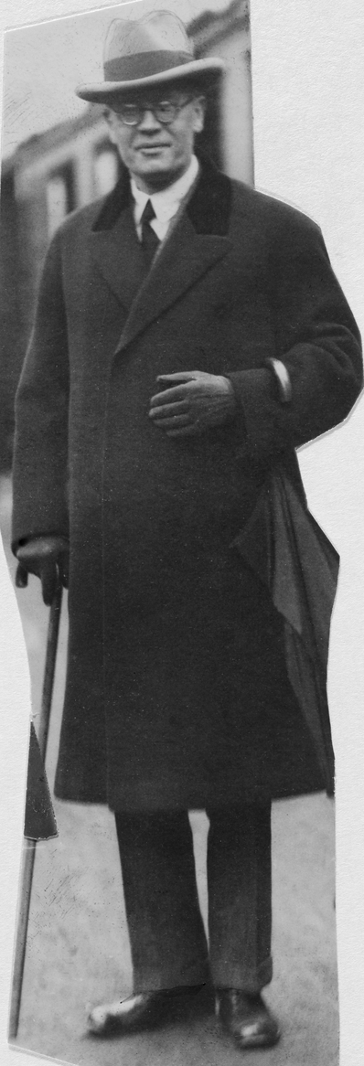 Norwegian tobacco manufacturer Halfdan Petterøe (1876–1939), photo from around 1932.